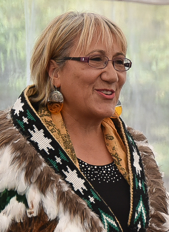 Mavis Mullins speaking at a ceremony marking the return of Pūkaha Reserve to Rangitāne, on 8 February 2020.